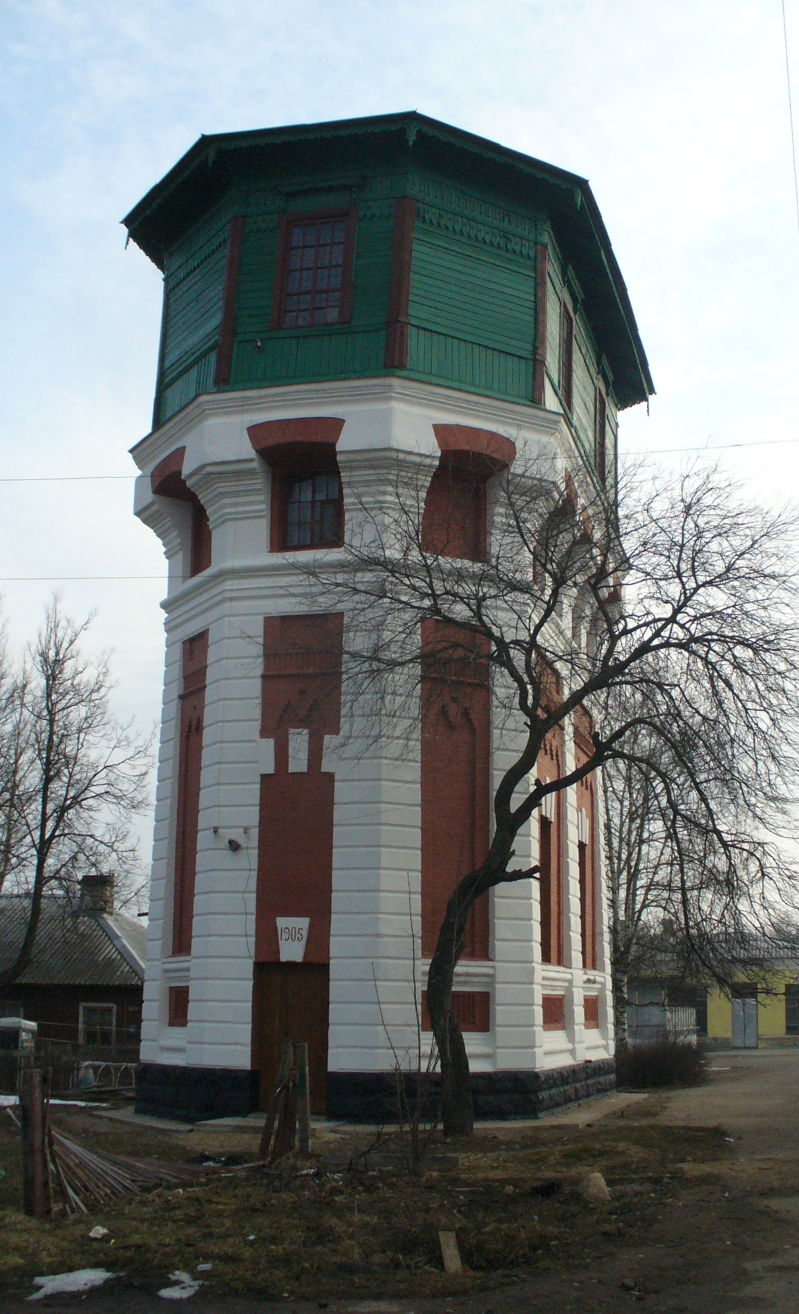 Volosovo station's watertower, Leningrad oblast, Russia